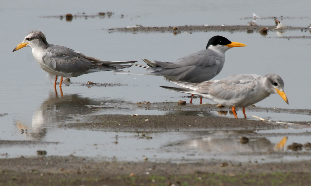 Indian River Tern or just River Tern Sterna aurantia - Sind: Kinai, Sans: Nadi kurri, Pun: Dariai taheri, Guj: Samanya dhomdi, Kenchipunch vabagali, Mar: Nadi suray, Ta: Kulathu aala, Te: Ramadasu, Mal: Puzha ala- at Pocharam lake, Andhra Pradesh, India.